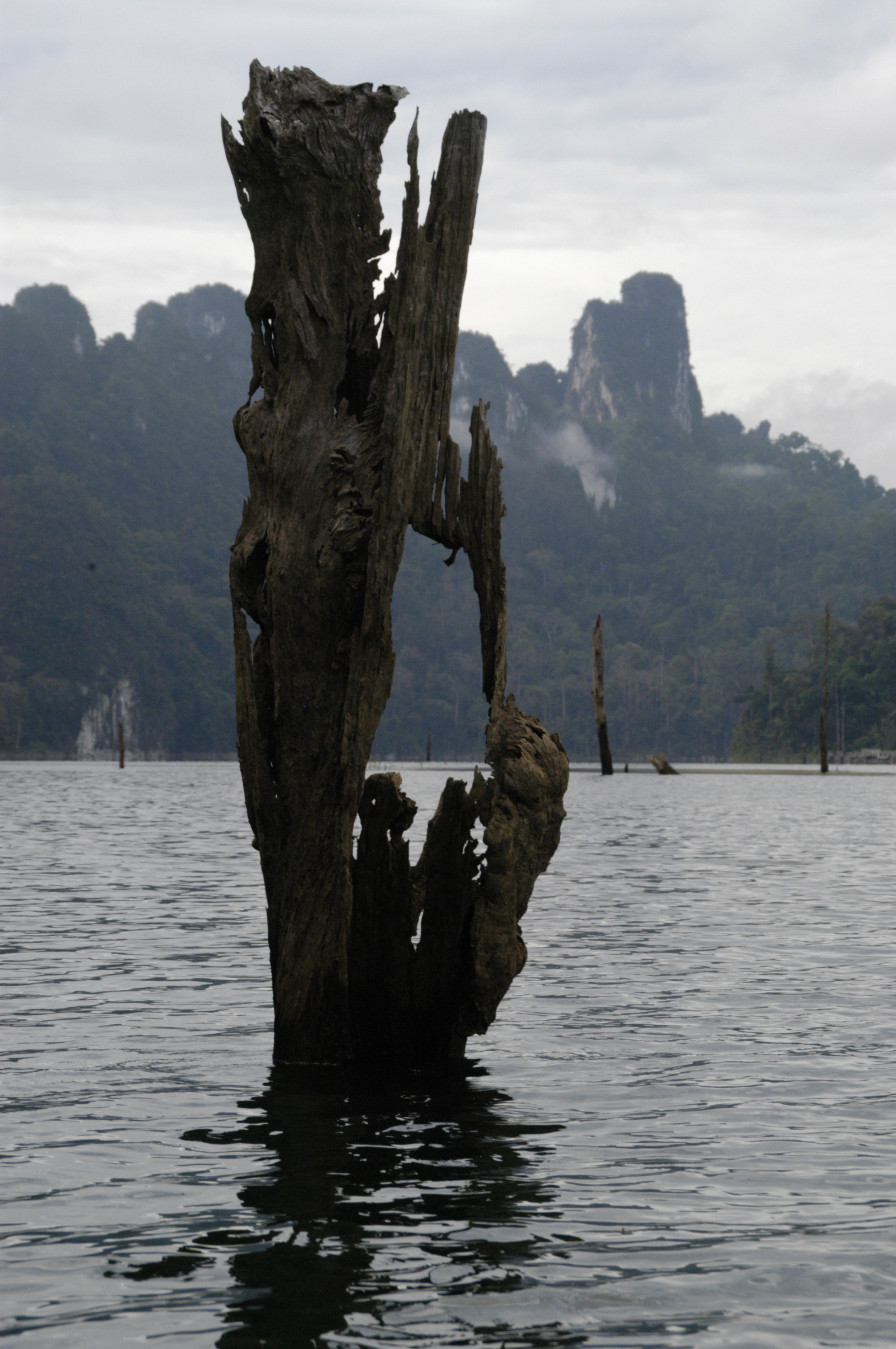 A dead tree trunk - the remaining evidence of the preexisting forest area